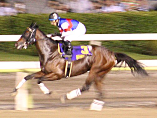 Nefer Memory (horse)